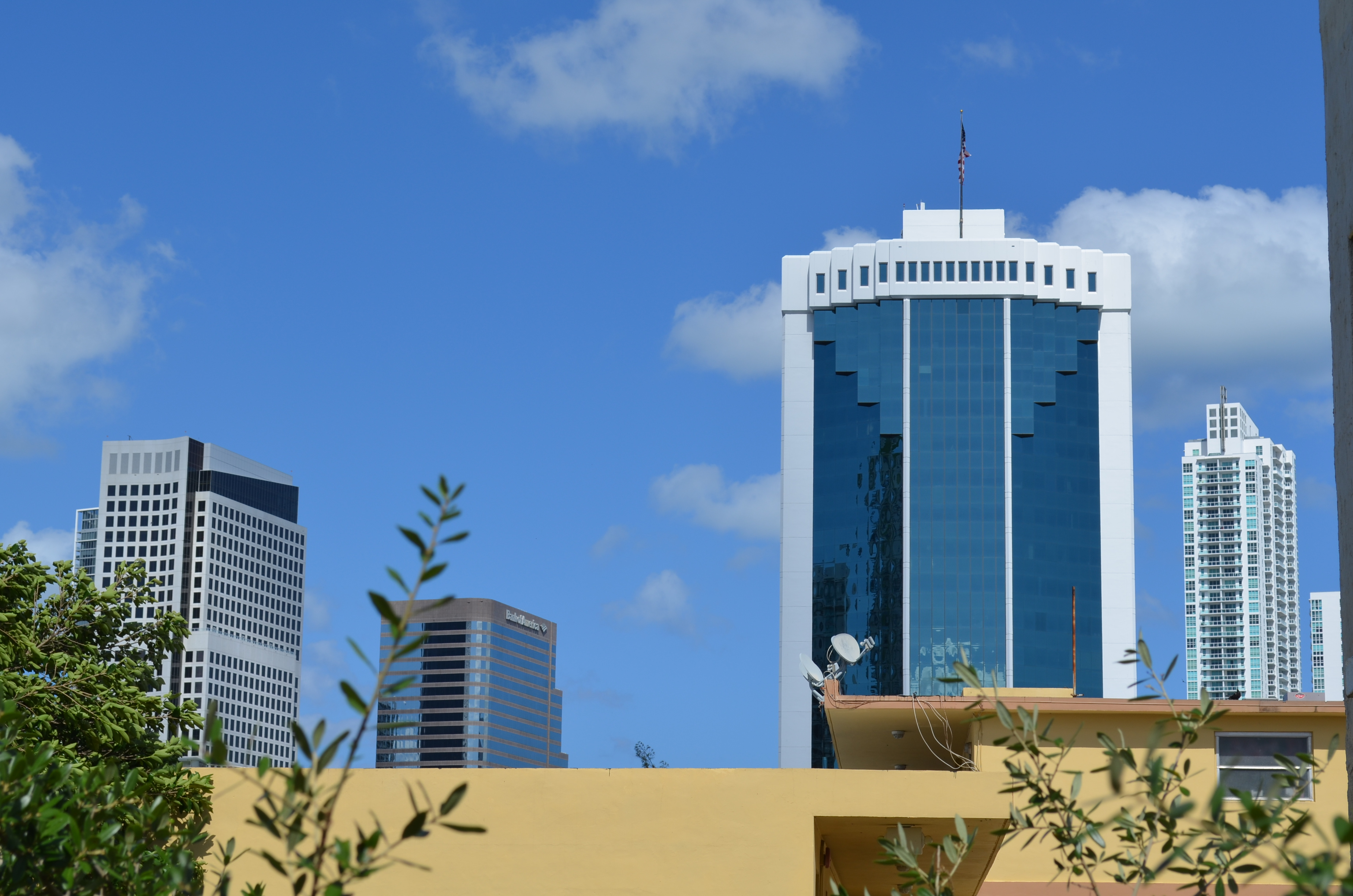 Similar apartment building in the foreground demolished and replaced with mid rise tower. Towards the end of Brickell Bayview Center standing alone.